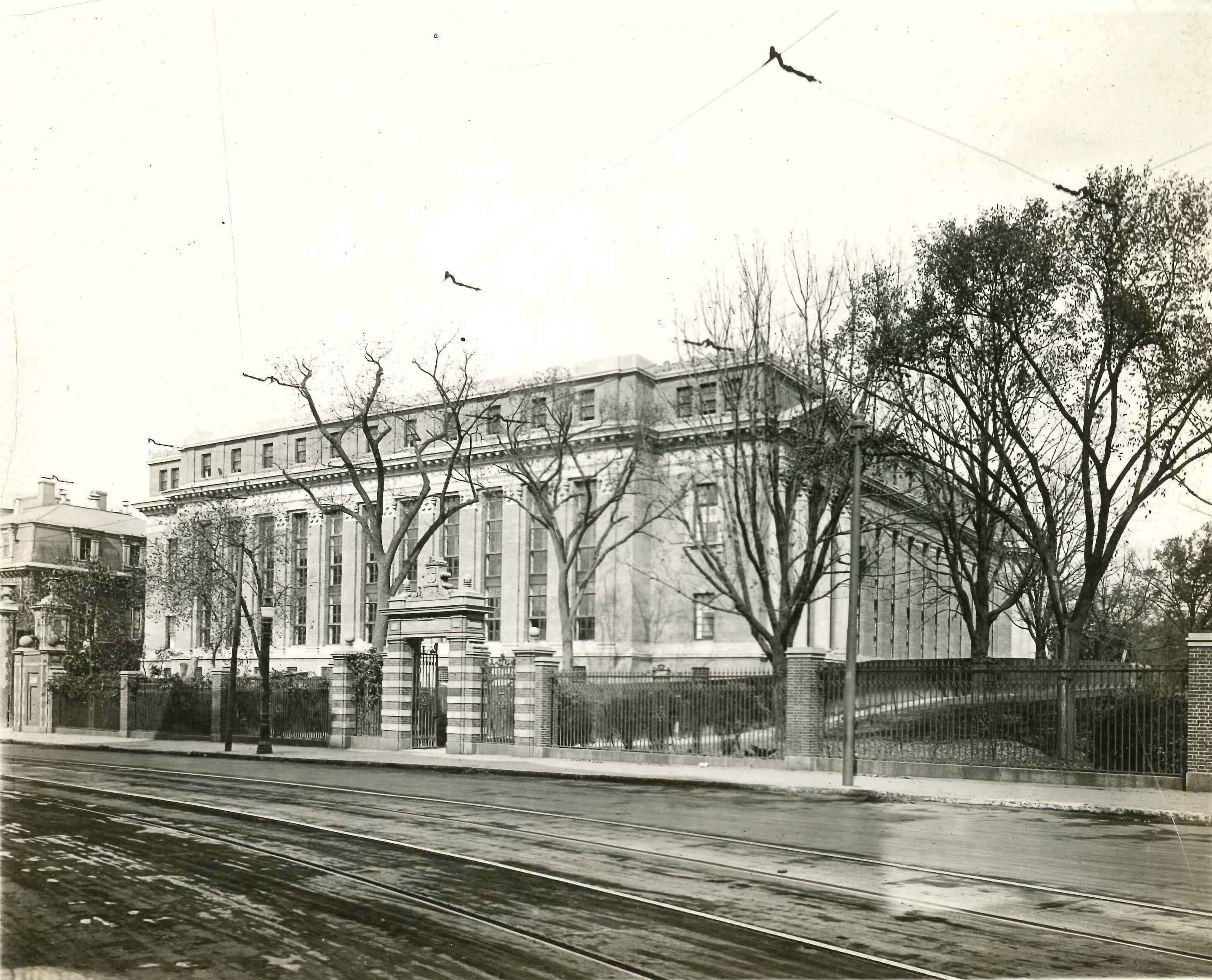 Massachusetts Avenue entrance, Harry Elkins Widener Memorial Library, Harvard University